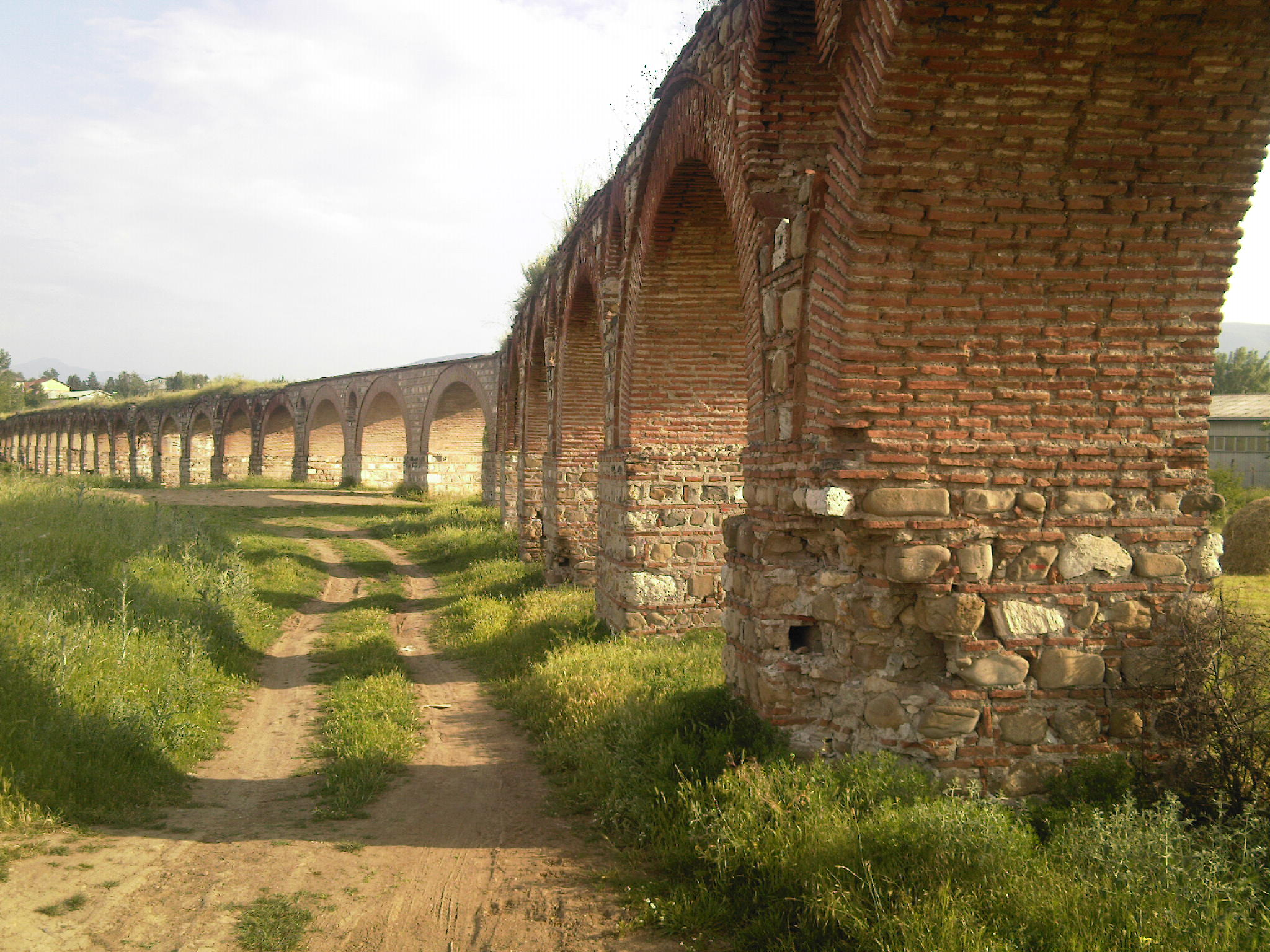 old Roman aqueduct in Skopje, Macedonia